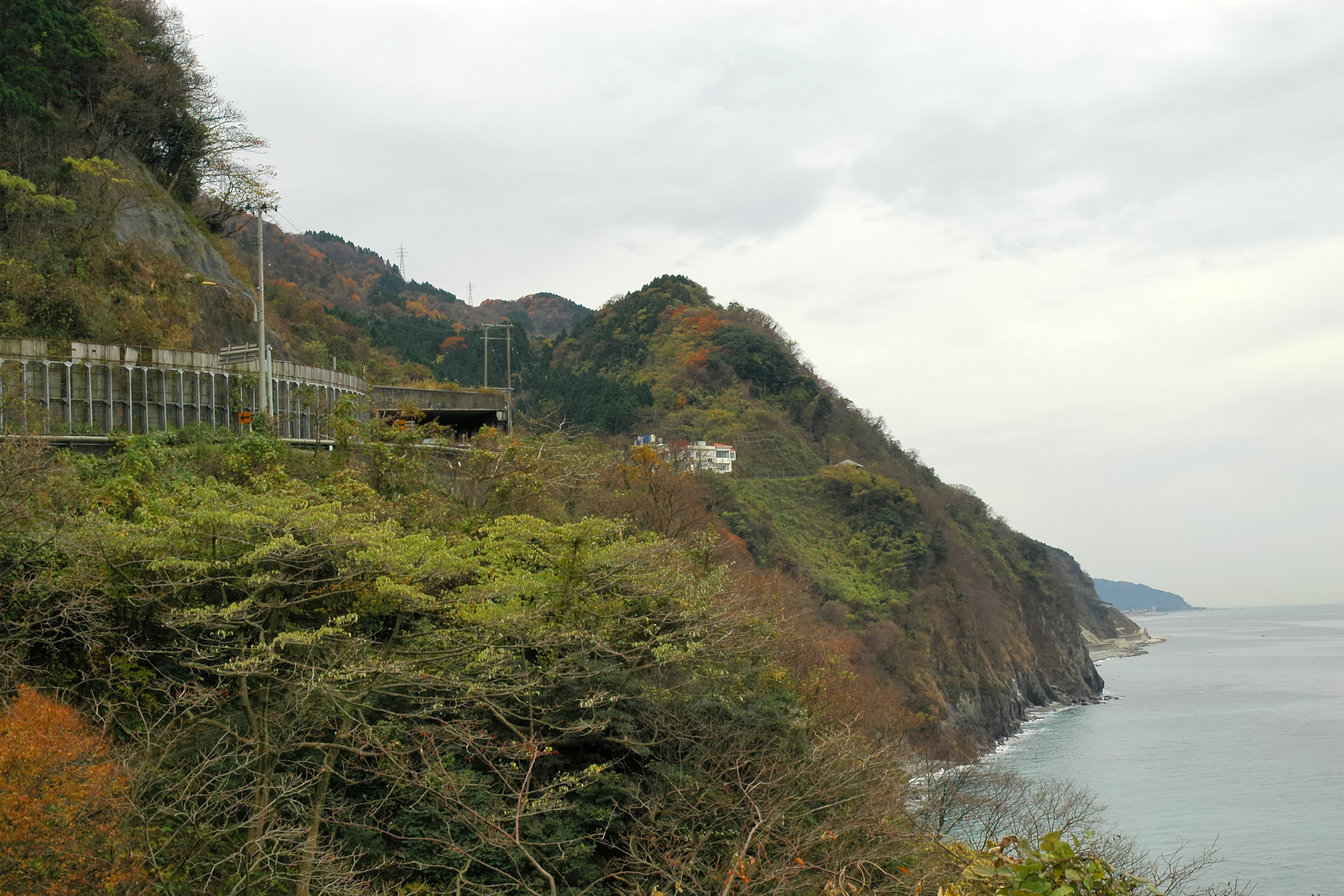 Oyashirazu cliff in Itoigawa City, Niigata Prefecture, Japan